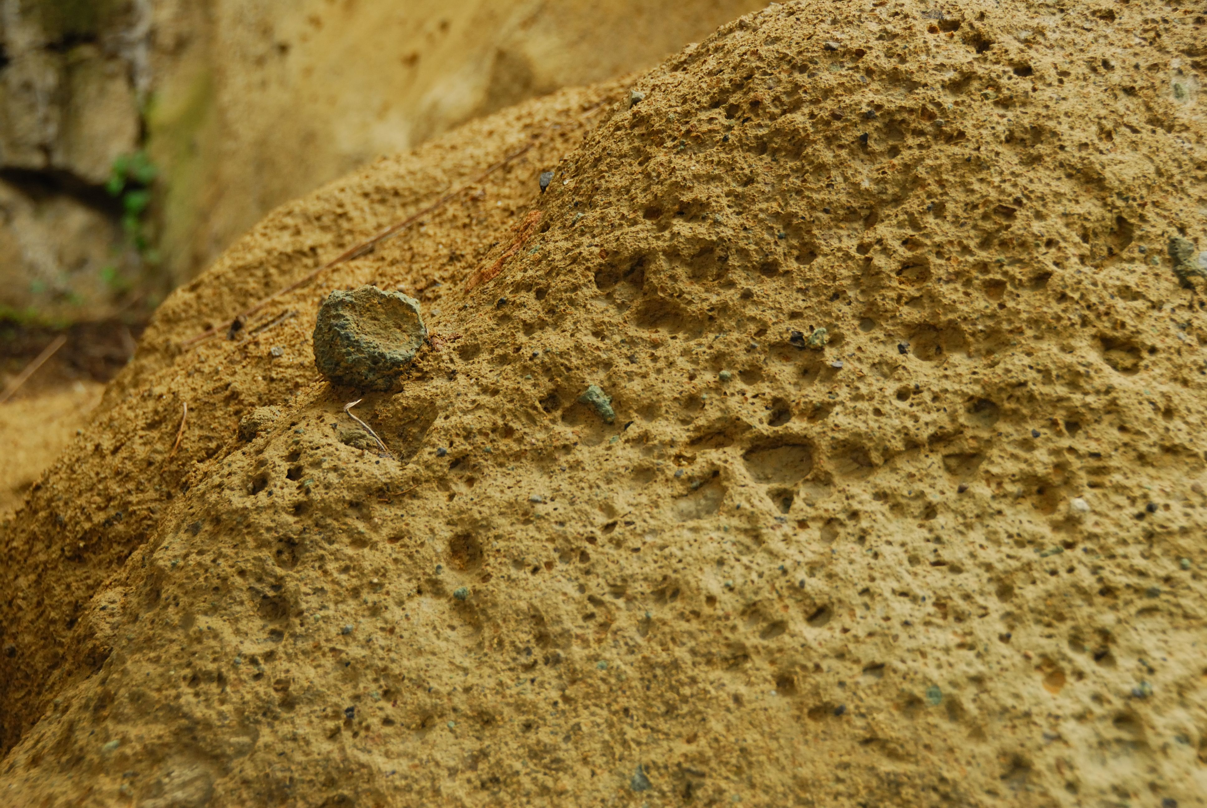 Neapolitan Yellow Tuff in closeup